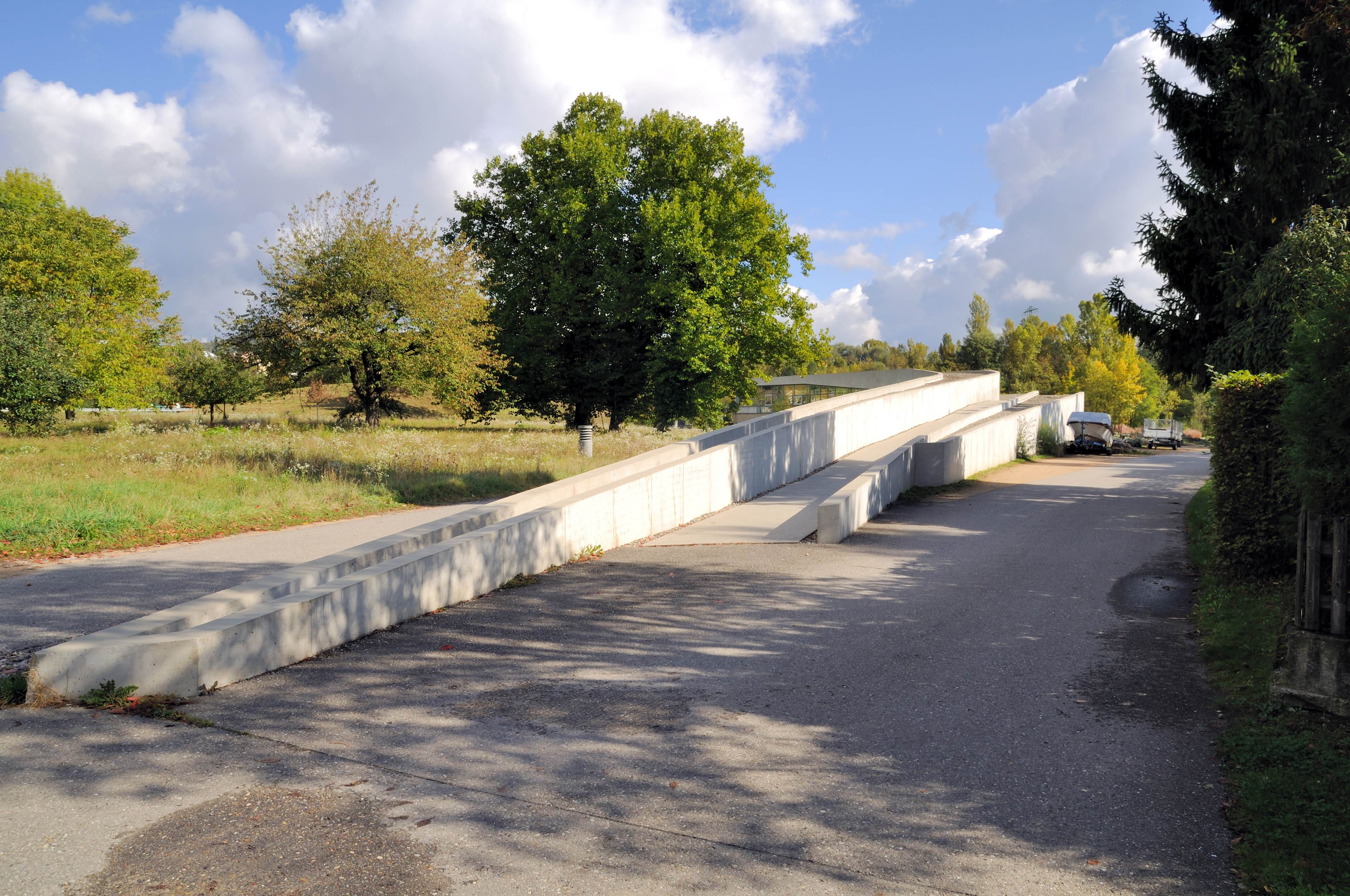 Weil am Rhein: Landscape Formation One